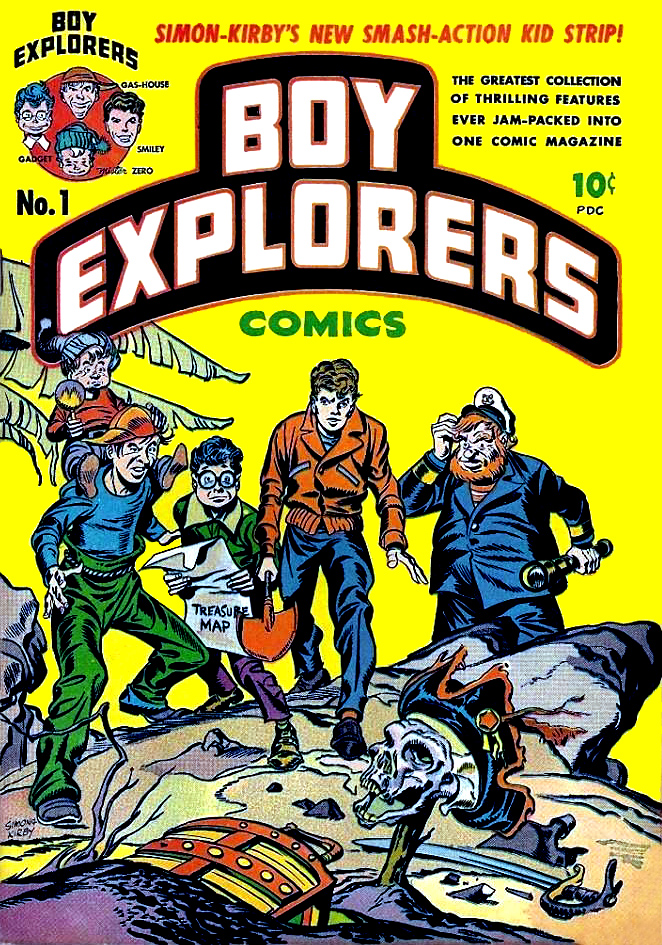 Commodore Sinbad and the Boy Explorers set out on another high seas adventure. Cover signed "Simon & Kirby".